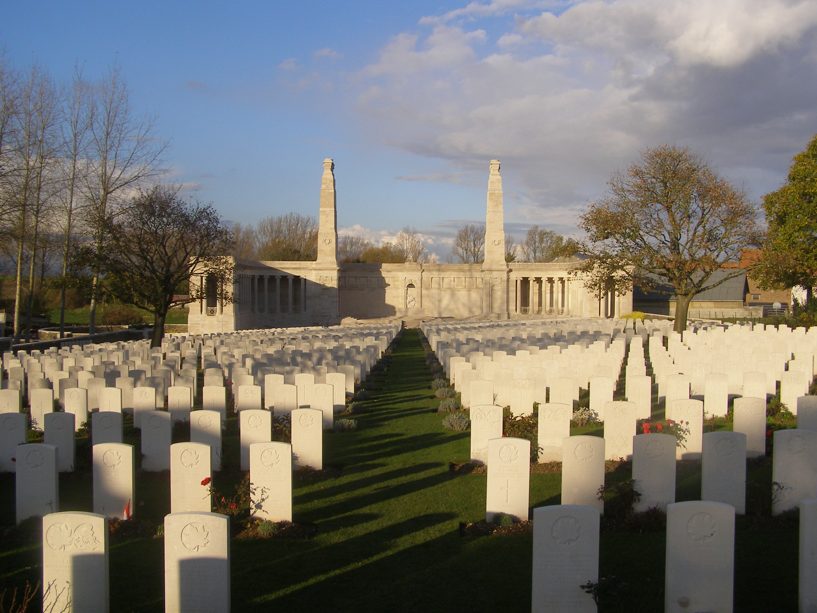 Vis en Artois British Cemetery and Memorial, France (Commonwealth War Graves Commission)